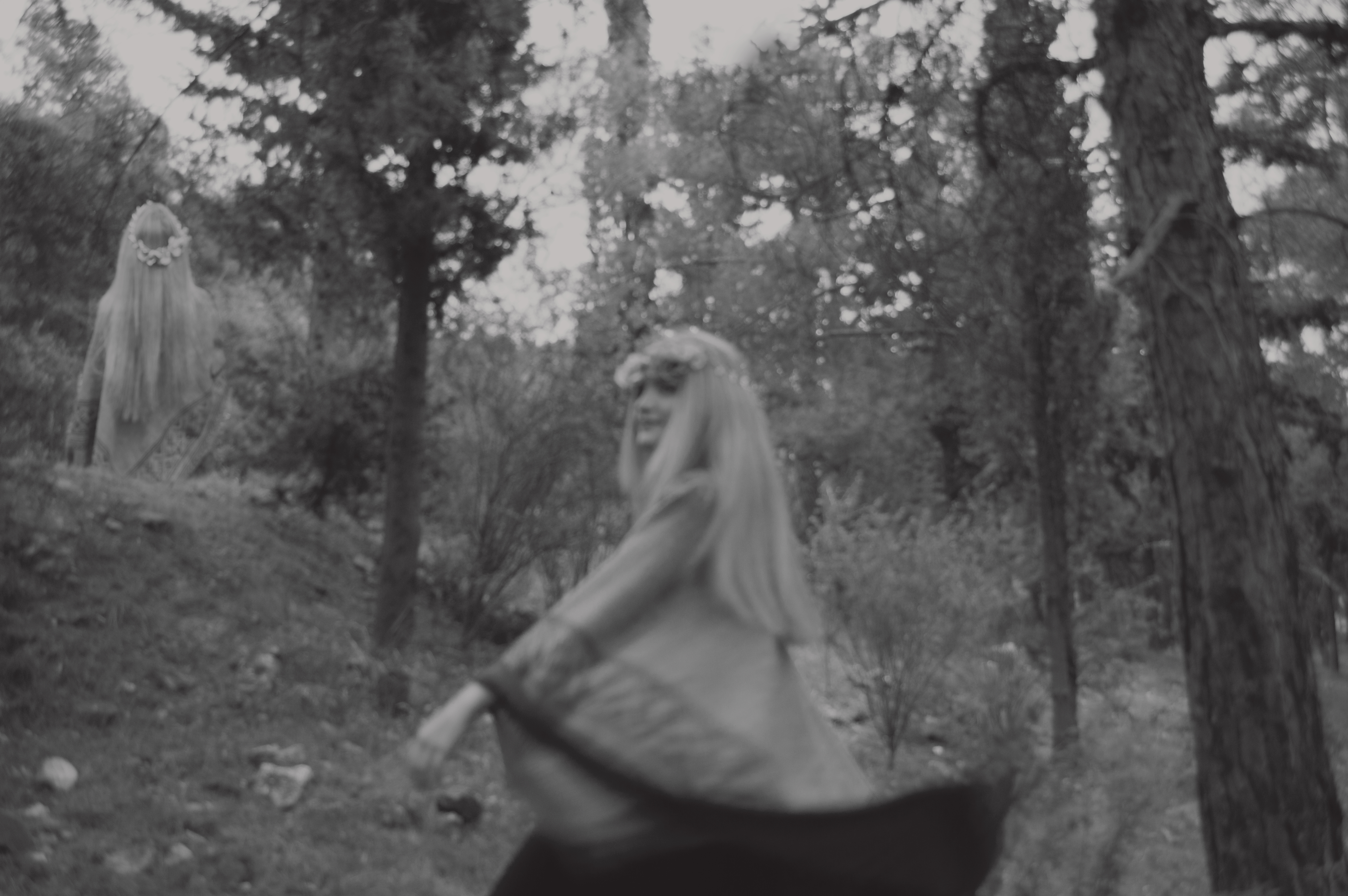 Optical illusions are often described as visual images that differ from reality - the eyes and brain 'see' something that doesn't quite match the physical measurement of the image. Optical illusions can work in various ways, they can be images that are different from the objects that make them, they can be ones that come from the effects on the eyes and brain through excessive stimulation, and others where the eye and brain make unconscious inferences.